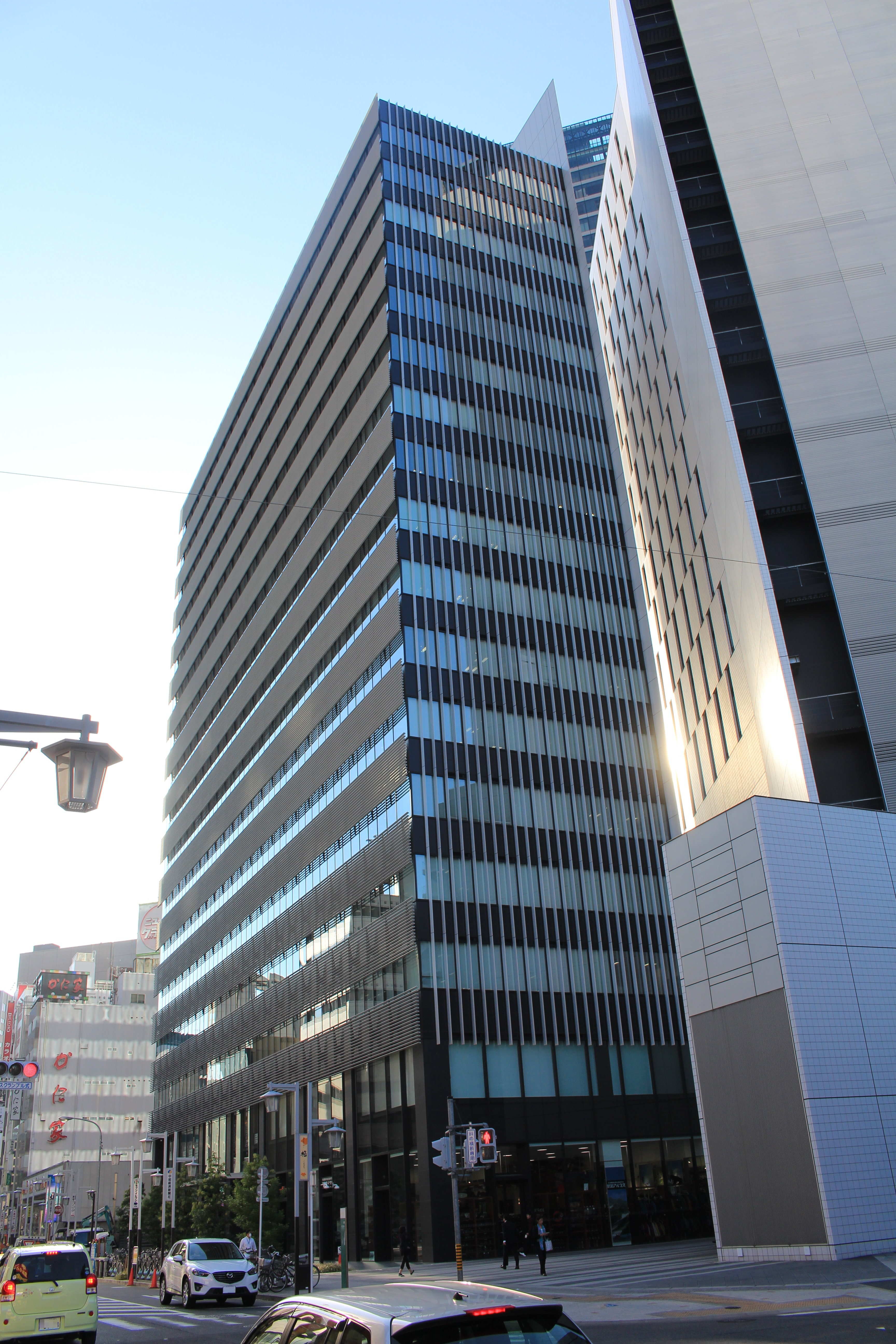 Nagoya Crosscourt Tower and Aichi Industry & Labor Center(right), in Meieki, Nakamura-ku, Nagoya, Aichi prefecture, Japan.